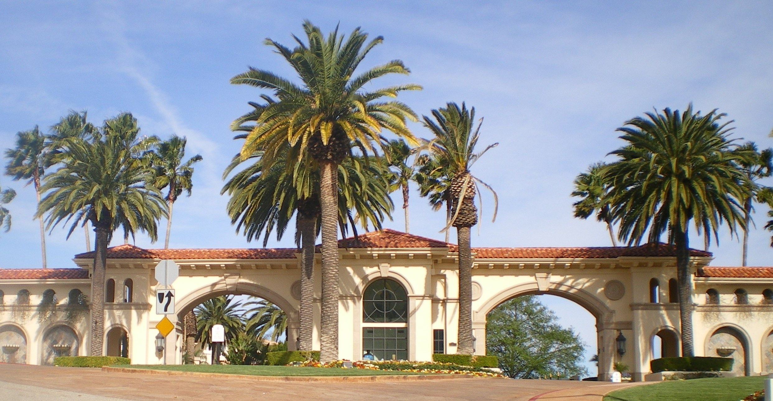 Mulholland Park Gate and gatehouse — southern Reseda Boulevard, Tarzana, Los Angeles, California. Canary Island date palms (Phoenix canariensis).